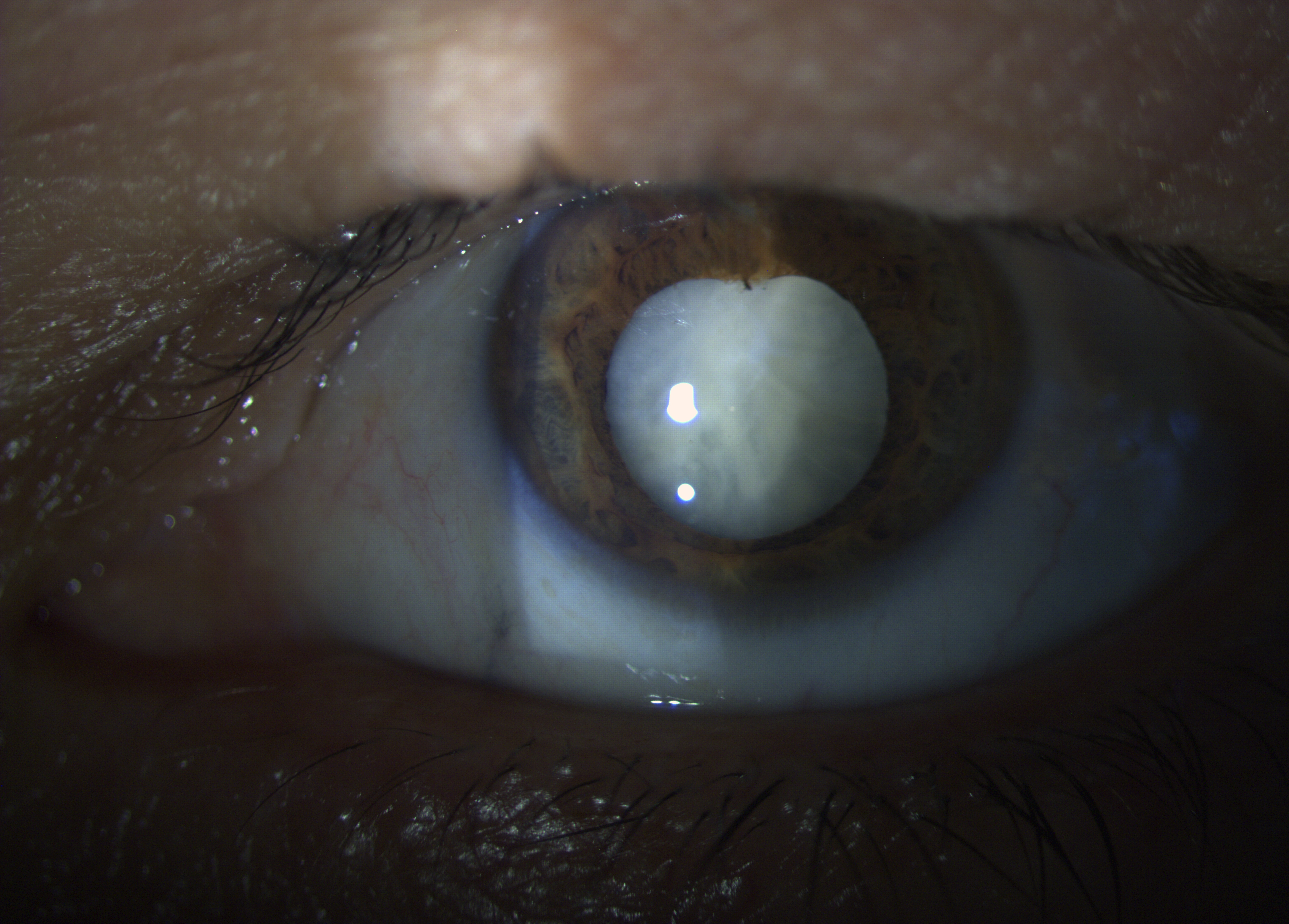 advanced cataract